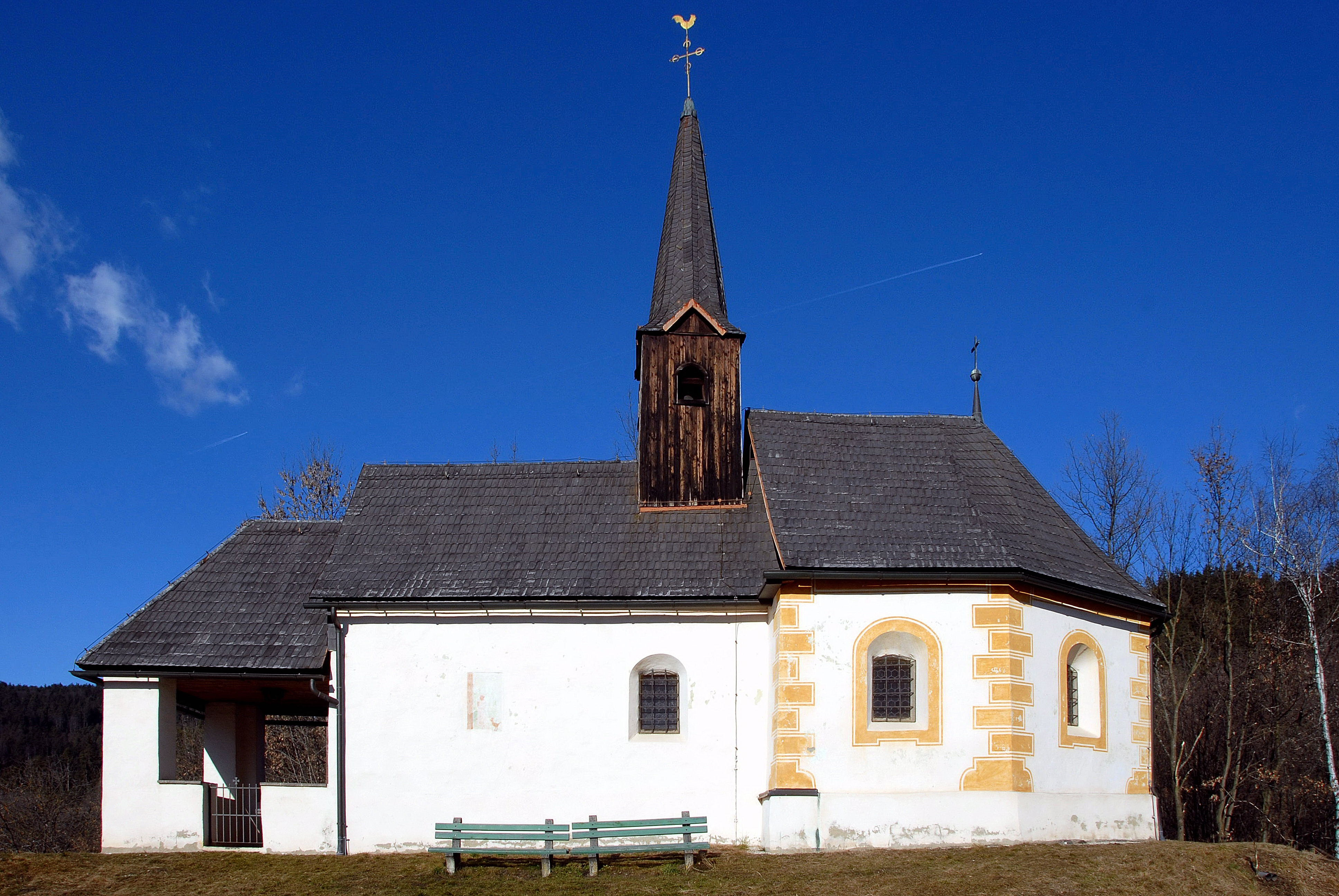 Subsidiary church Saint Oswald at Goritschach, municipality Poertschach on the Lake Woerth, district Klagenfurt Land, Carinthia, Austria, EU